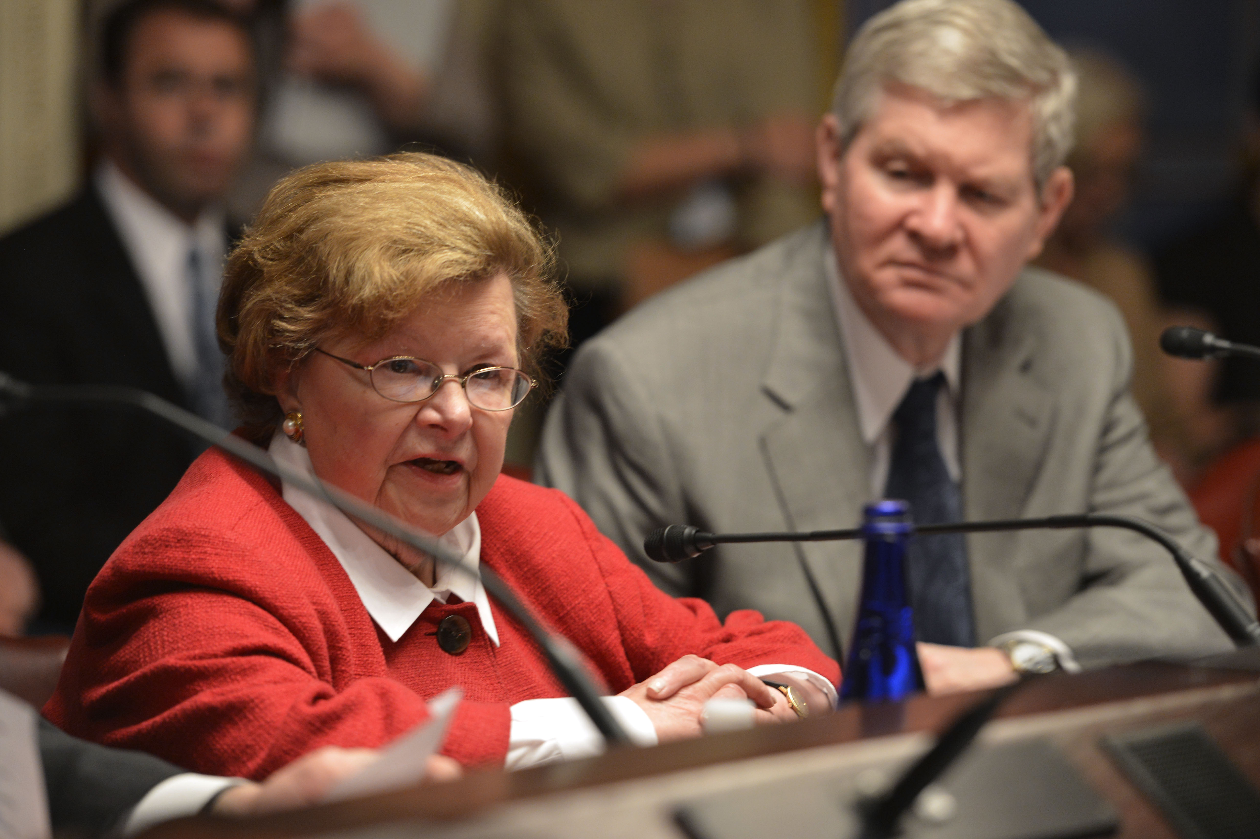 Senate Appropriations Committee Chairwoman Senator Barbara Mikulski hosts Secretary Chuck Hagel and Veterans Affairs Secretary Eric Shinseki for a Congressional roundtable discussion on the VA claims backlog in Washington, D.C., May 22, 2013. DoD Photo By Glenn Fawcett (Released)